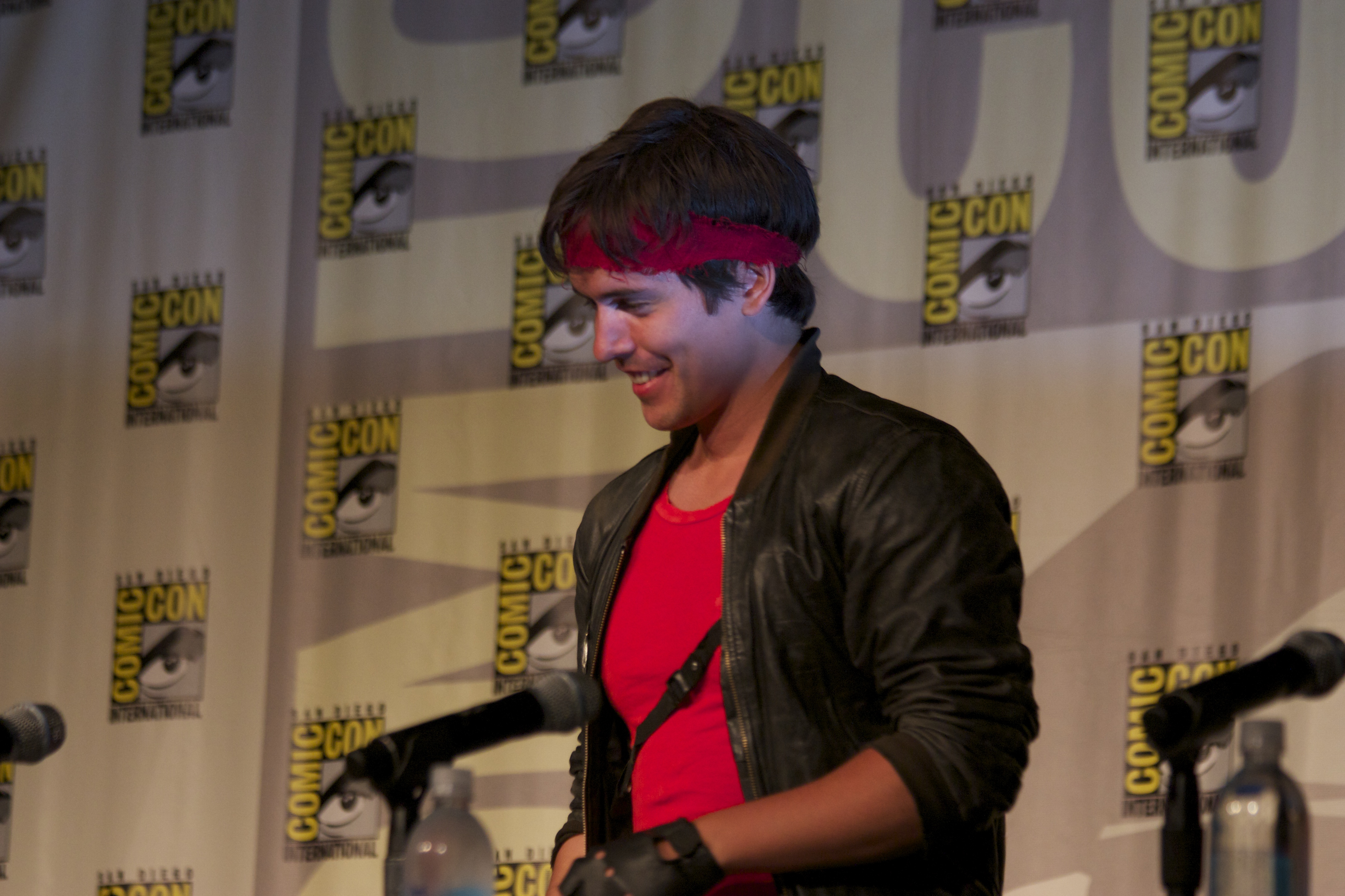 David Sandberg, director and lead actor in the film Kung Fury, at a panel about the film at the 2015 Comic-Con International in San Diego.